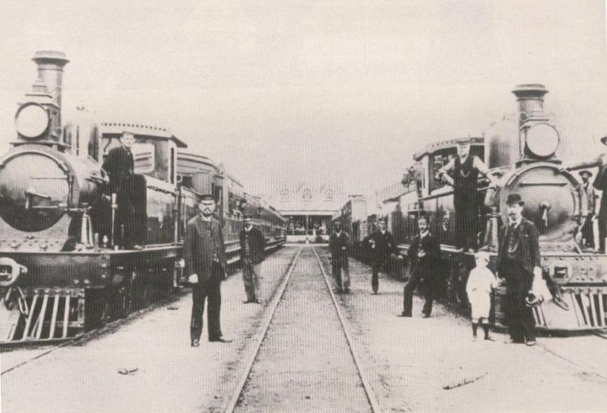 Port Elizabeth - Uitenhage railway built by Molteno Government in 1870s. Photograph from South African Railways Archives, showing CGR 1st Class 4-4-0TT locomotives that entered service in 1881